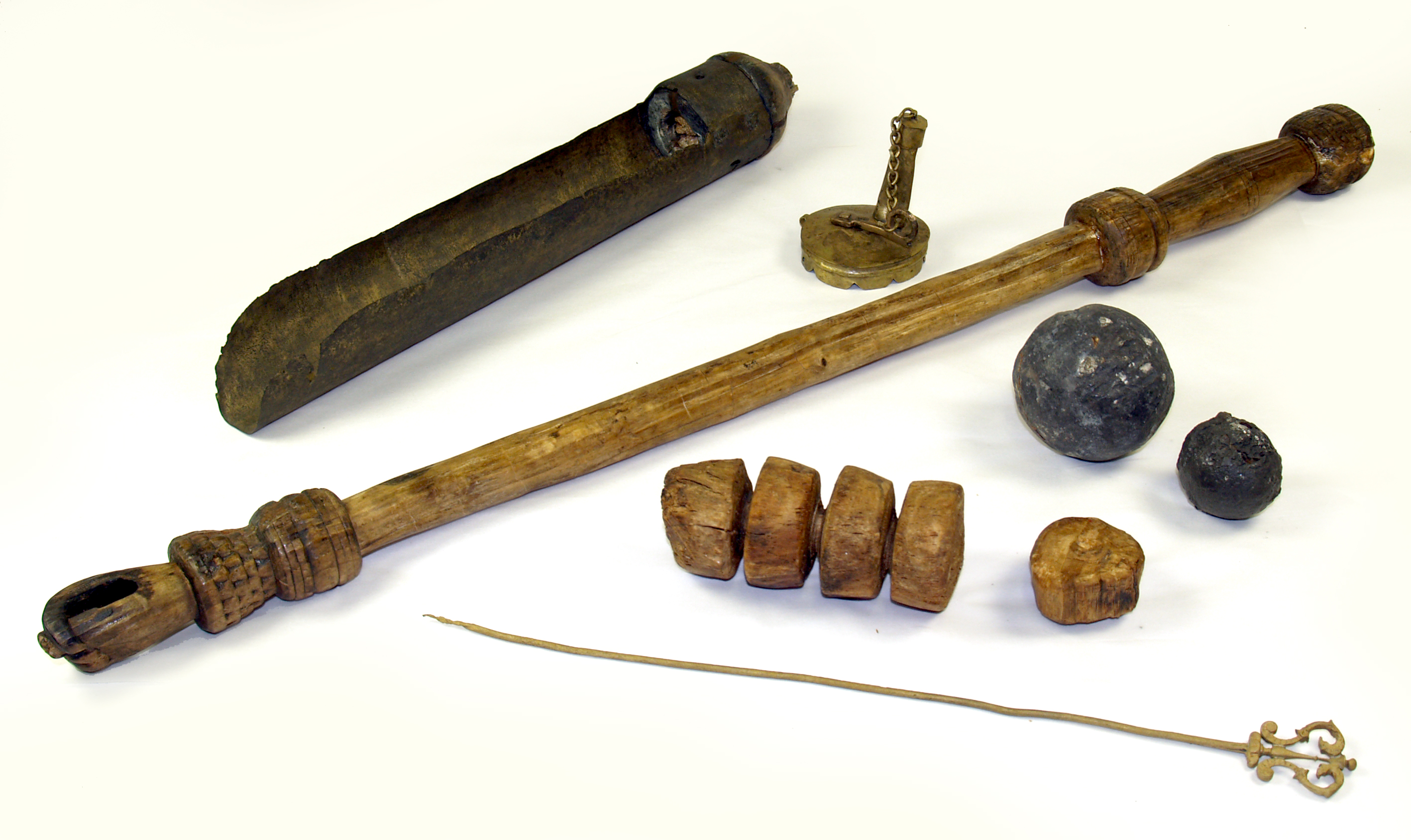 A selection of gun furniture found on board the carrack Mary Rose.